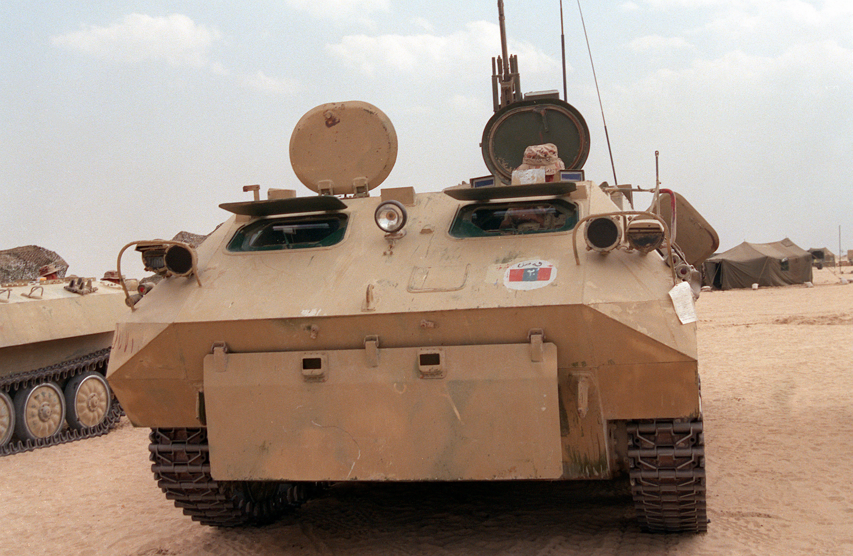 A front view of an Iraqi MT-LBu captured during Operation Desert Storm.